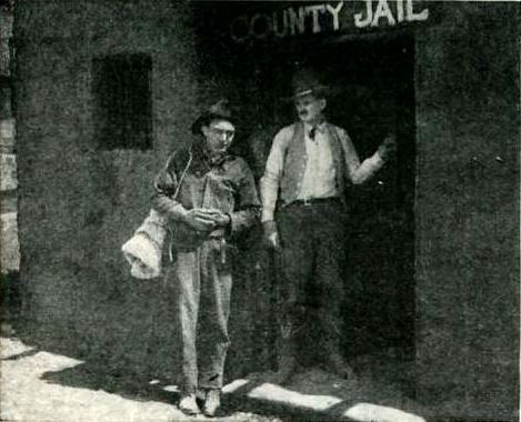 Still from the American silent western film Sundown Slim (1920), part of a photo-play on page 33 of the January 1921 Film Fun. Still 5: "Sundown (Harry Carey) accepts the blame for a crime committed by a pal, and goes to jail." The Sheriff (right) was played by Ed Jones, American actor in films from 1914 - 1939.